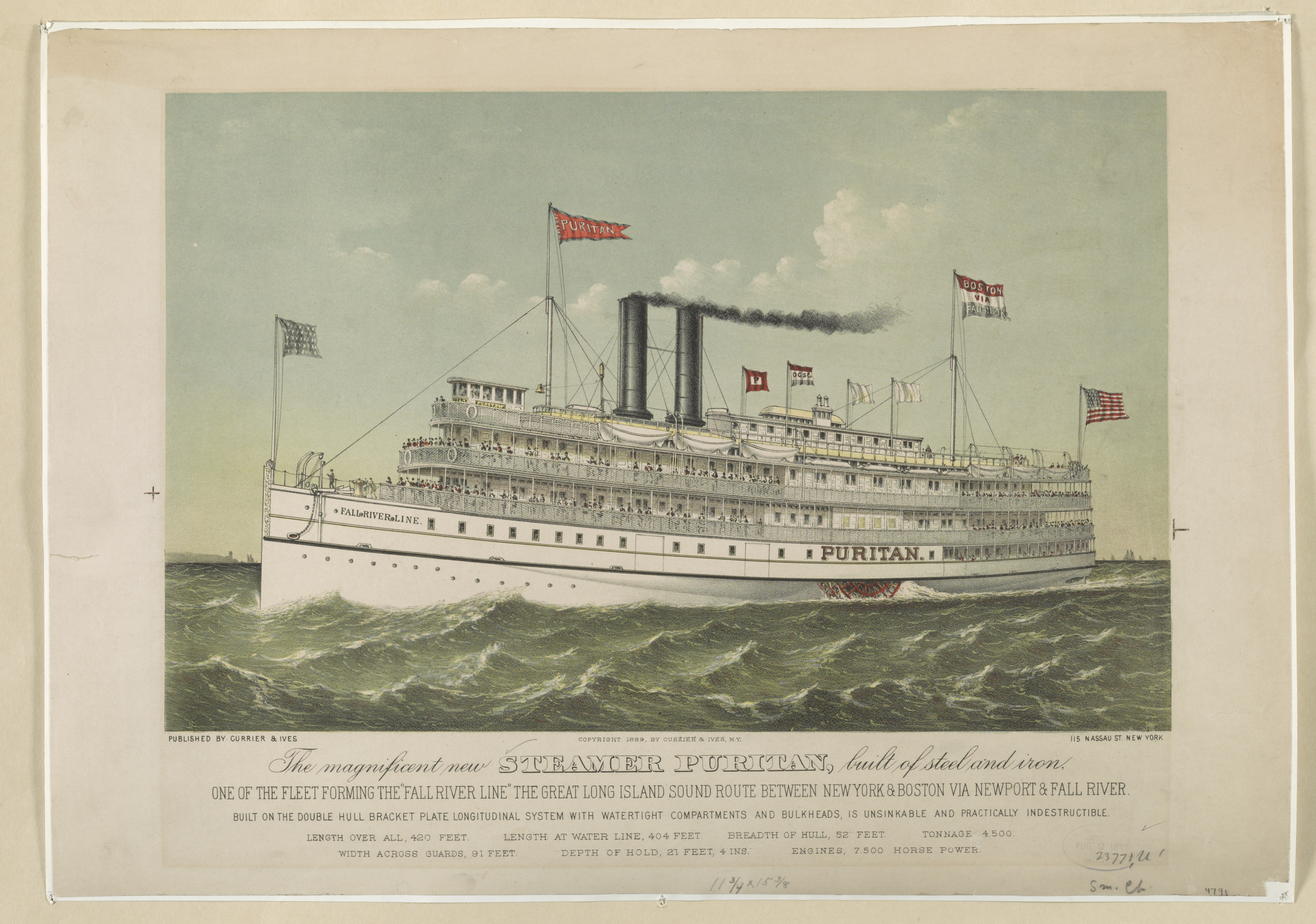 Title: The magnificent new steamer Puritan, built of steel and iron: one of the fleet forming the "fall river line" the great Long Island sound route between New York & Boston via Newport & Fall River Physical description: 1 print : chromolithograph.